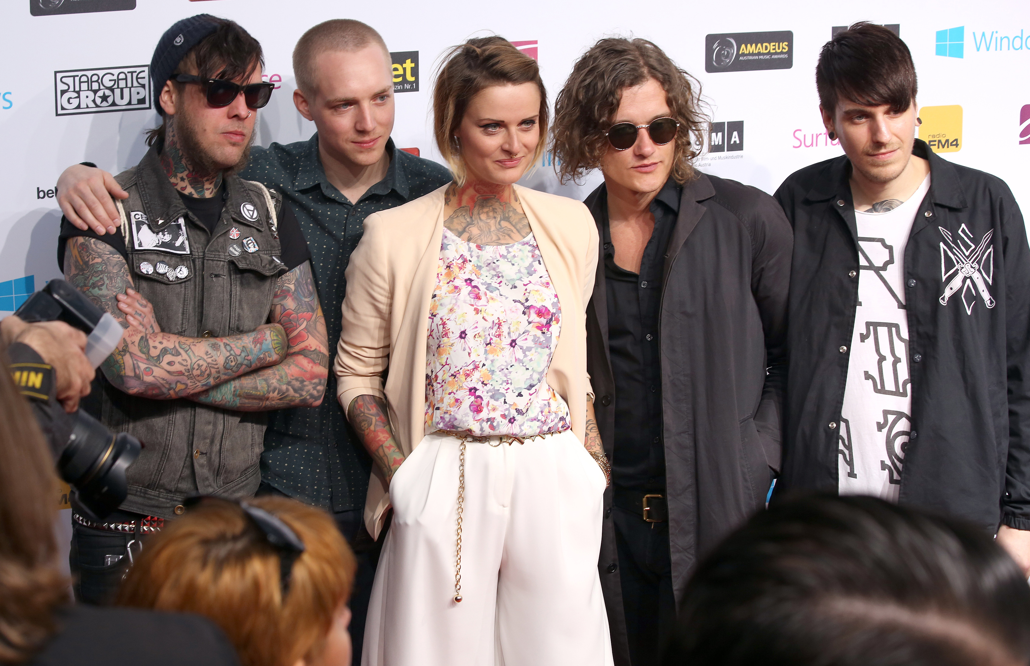 Jennifer Rostock at the Amadeus Austrian Music Award 2014 at Volkstheater in Vienna